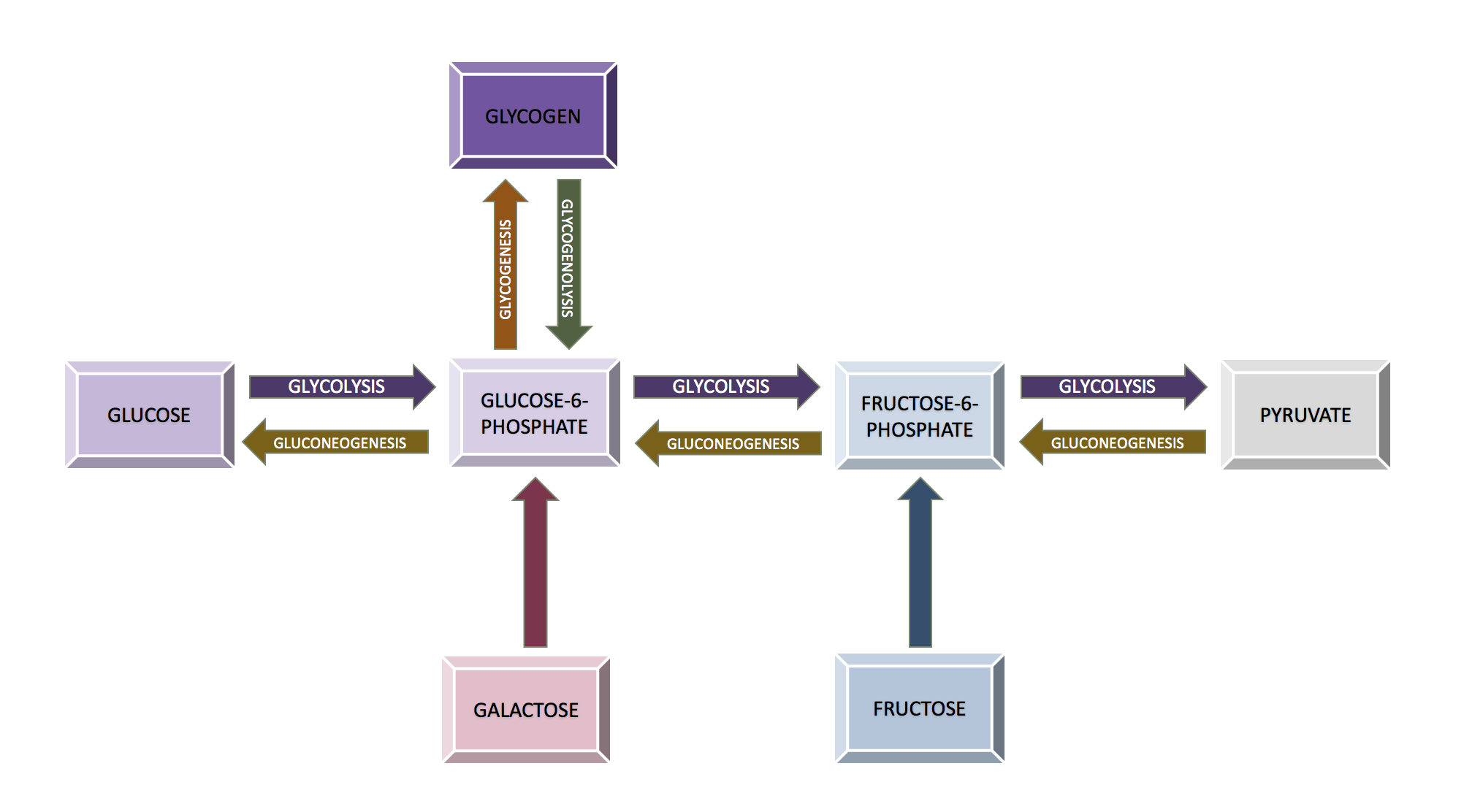 Diagram of the relationship between the processes of carbohydrate metabolism, including glycolysis, gluconeogenesis, glycogenesis, glycogenolysis, fructose metabolism, and galactose metabolism